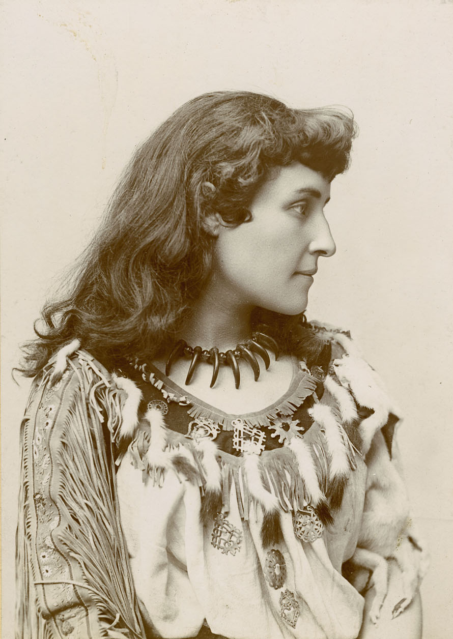 Pauline E. Johnson (1862-1913). The poet, also known by her Indian name Tekahionwake, was born near Brantford, Ont., the daughter of an English-woman and a Mohawk chief